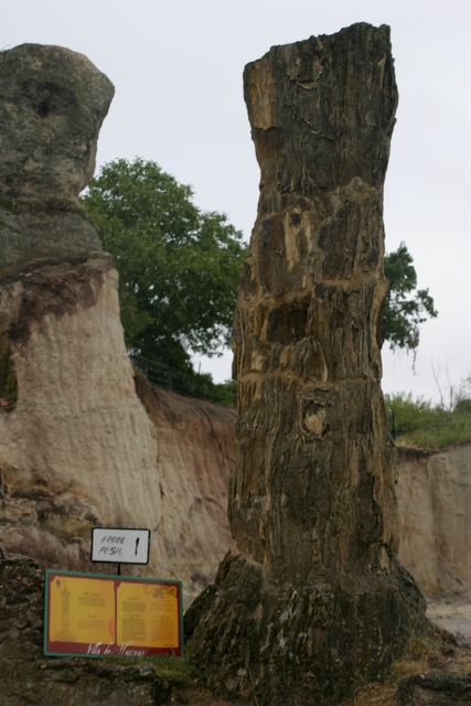 Fossilized tree on Hacinas, Burgos